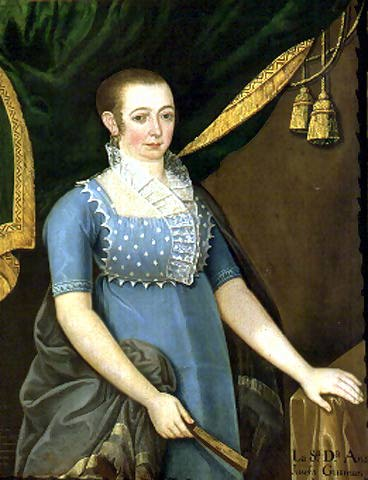 Portrait of Ana Josefa de Guzmán y Lecaros, Mother of the 1st Marquis of Larraín